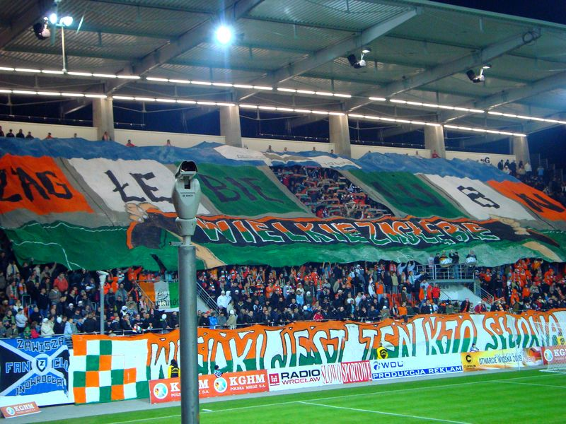 sector G